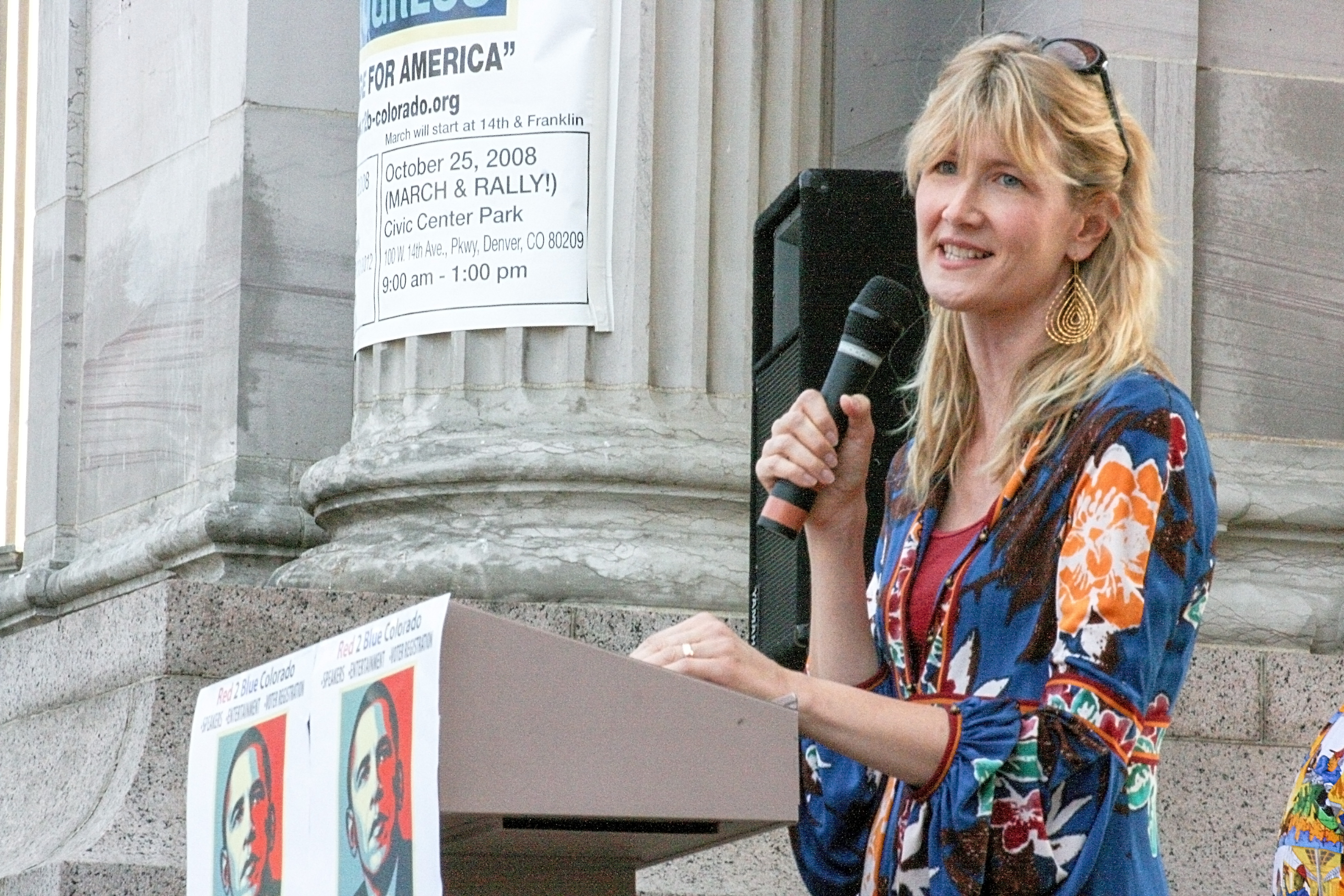 Obama Rally w/Ben Harper & Laura Dern :: Civic Center Park :: 10.25.08